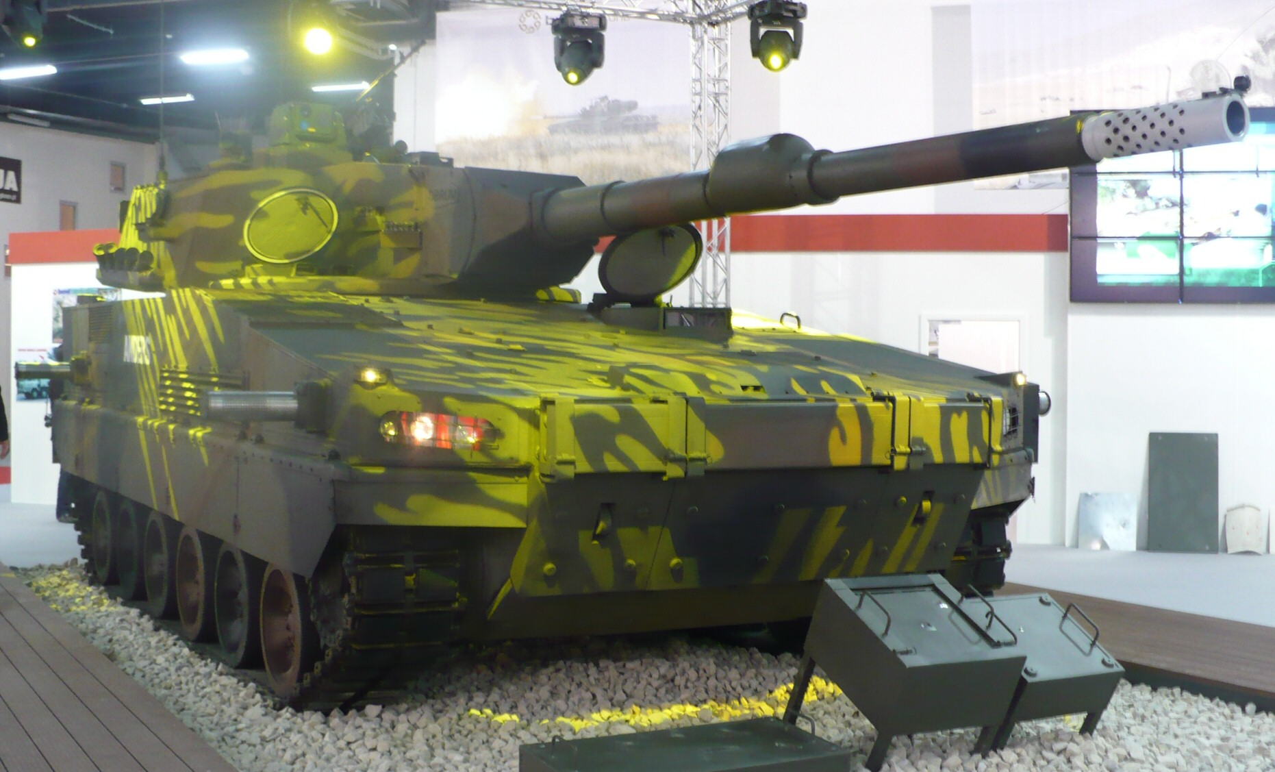 Polish light tank Anders - technology demonstrator. MSPO 2010.